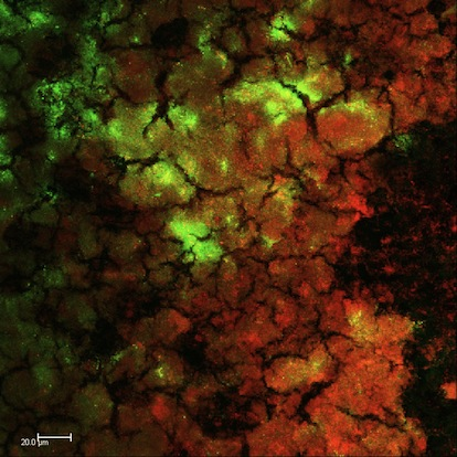 Biofilm attached to dentin treated with chlorhexidine by 5min. Live/Dead technique.